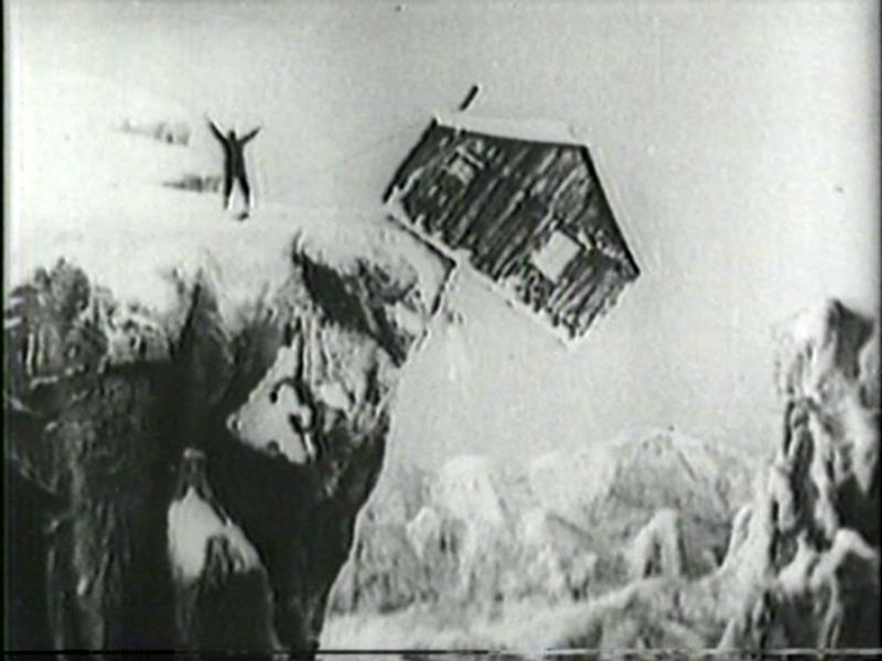 Mack Swain from "The Gold Rush".